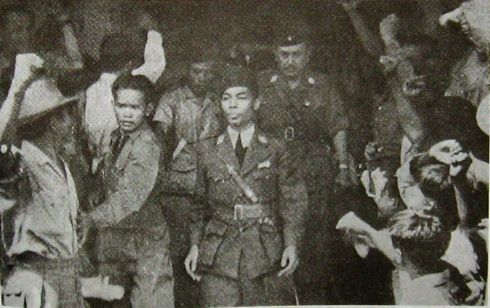 General Sudirman upon arrival in Jakarta. Other information According to the copyright law in effect in Indonesia at the time of the URAA, copyright on this image expired on 1 January 1971 (25 years after publication).